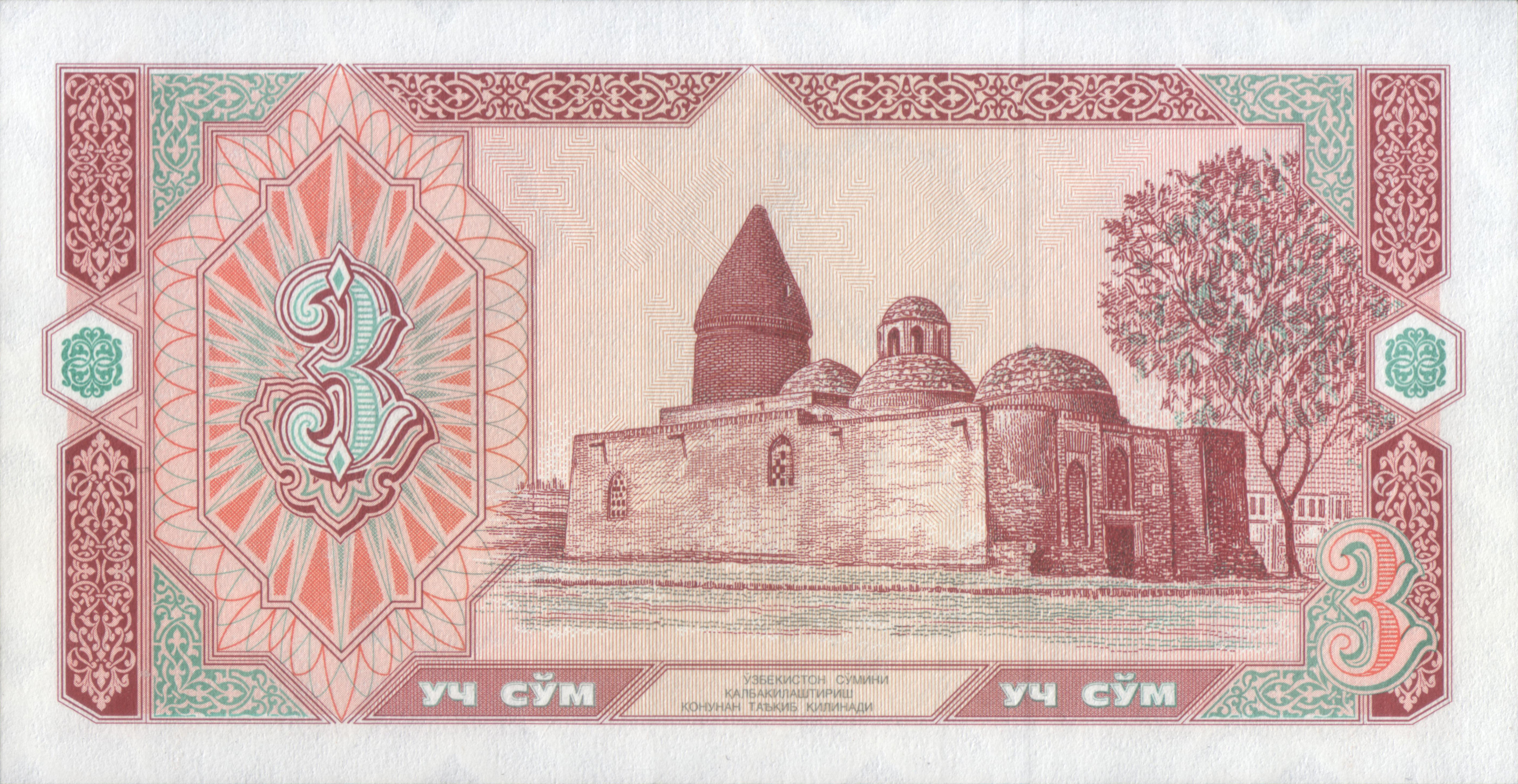 3 soms of Uzbekistan (1994)